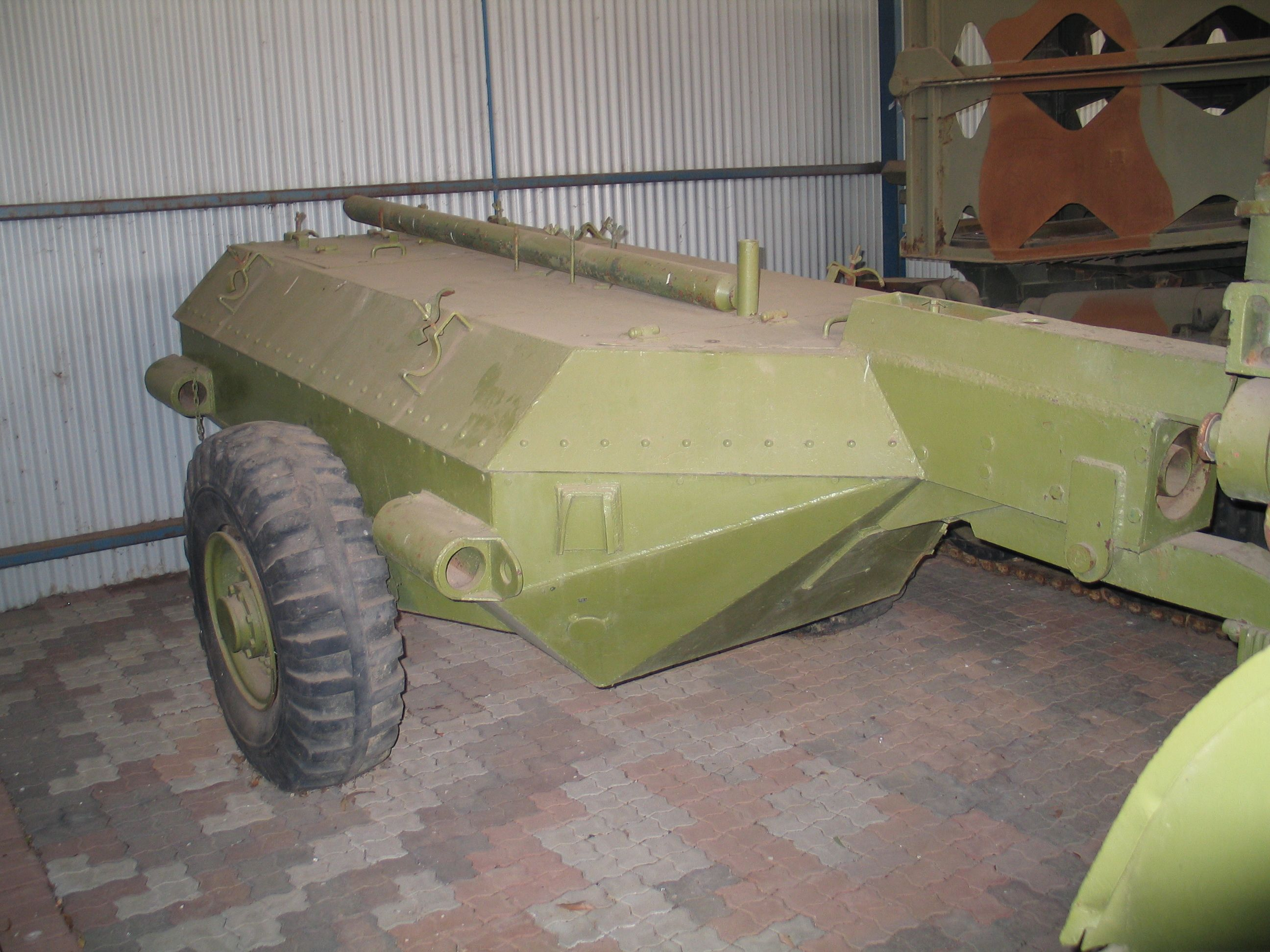 Infantry Tank Mk IV Churchill in the Churchill Crocodile flamethrower configuration in Royal Australian Armoured Corps Tank Museum, Puckapunyal, Victoria, Australia.